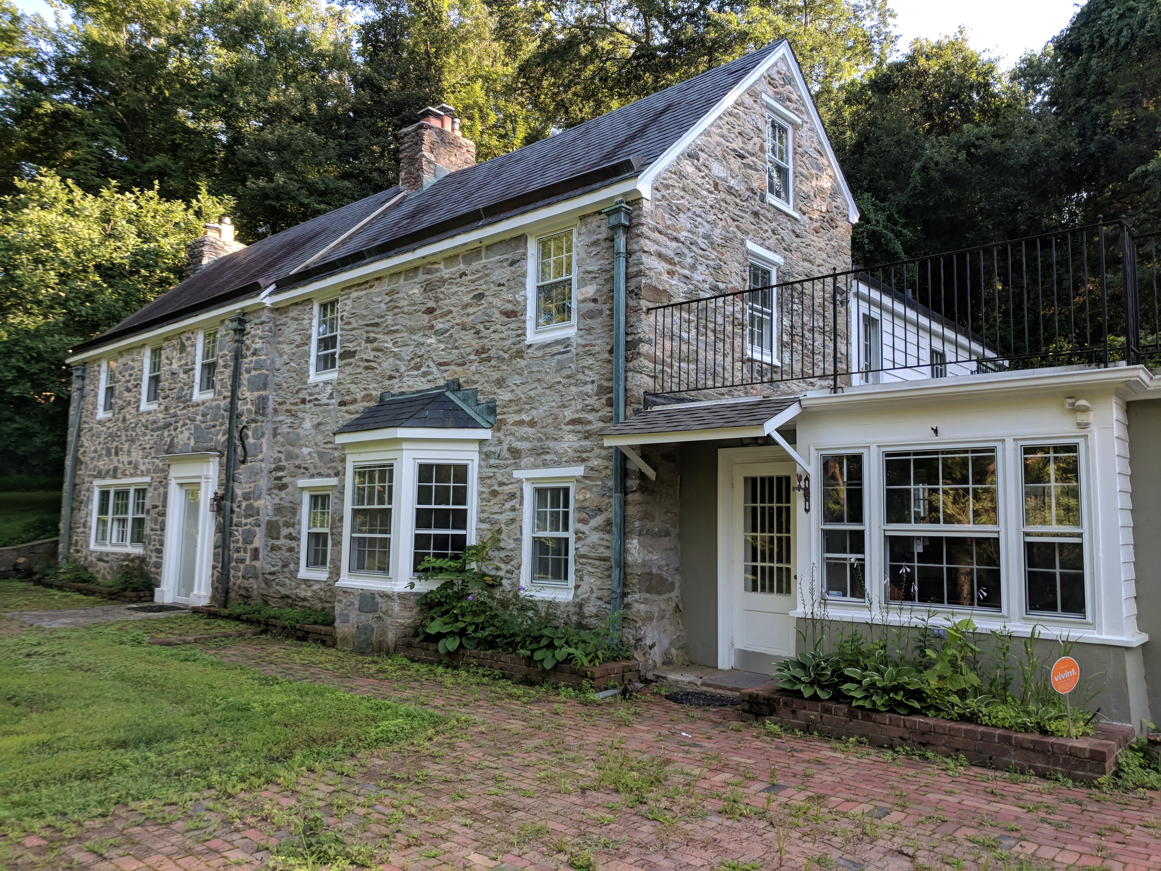 Patuxent River State Park in Howard and Montgomery counties, Maryland.